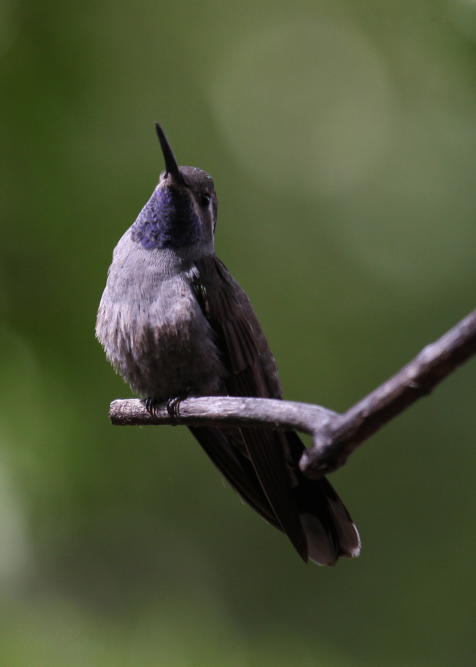 male blue-throated hummingbird